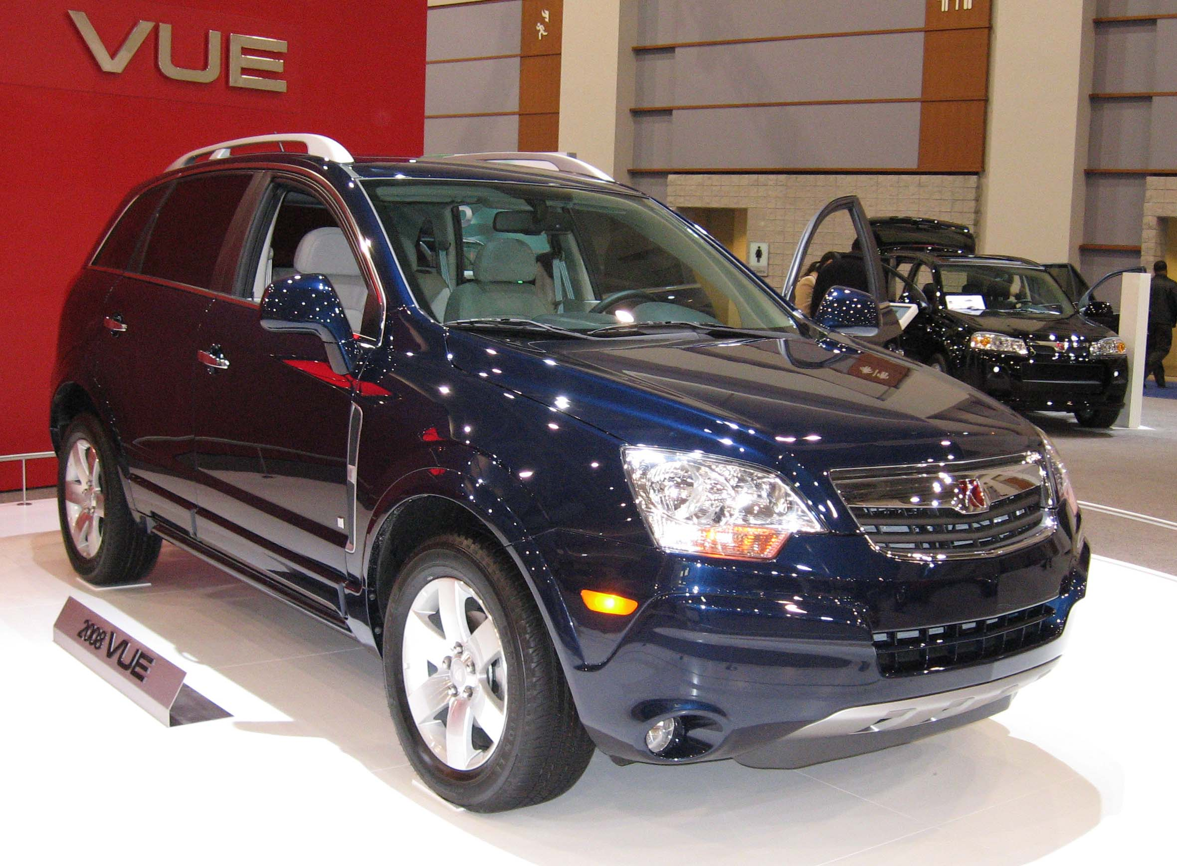 2008 Saturn Vue photographed at the Washington Auto Show.